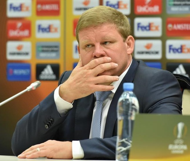 Hein Vanhaezebrouck